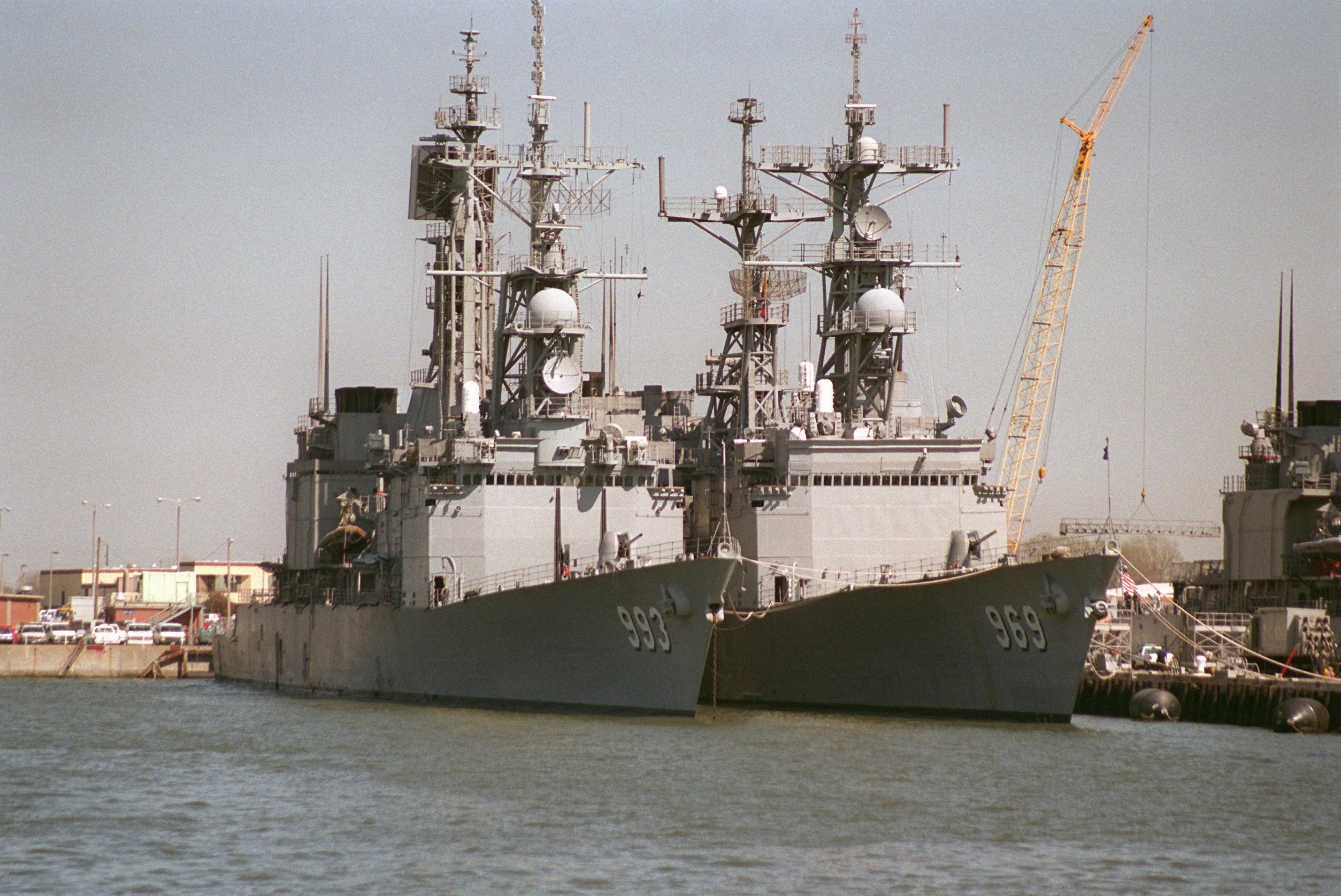 Service Depicted: Navy Command Shown: N0113-NMCA-4/96-08 A starboard bow view of the guided missile destroyer USS KIDD (DDG-993) and the Spruance class destroyer USS PETERSON (DD-969) moored together on the north side of pier 24 at the Norfolk Naval Base. This photo shows the differences in the regular destroyer versus the guided missile type. The KIDD is equipped with the more advanced SPS-48 and SPS-49 radar antenna. The Mark 15 missile launcher is aft of the 5 inch gun mount. Location: HAMPTON ROADSTEAD, VIRGINIA (VA) UNITED STATES OF AMERICA (USA)